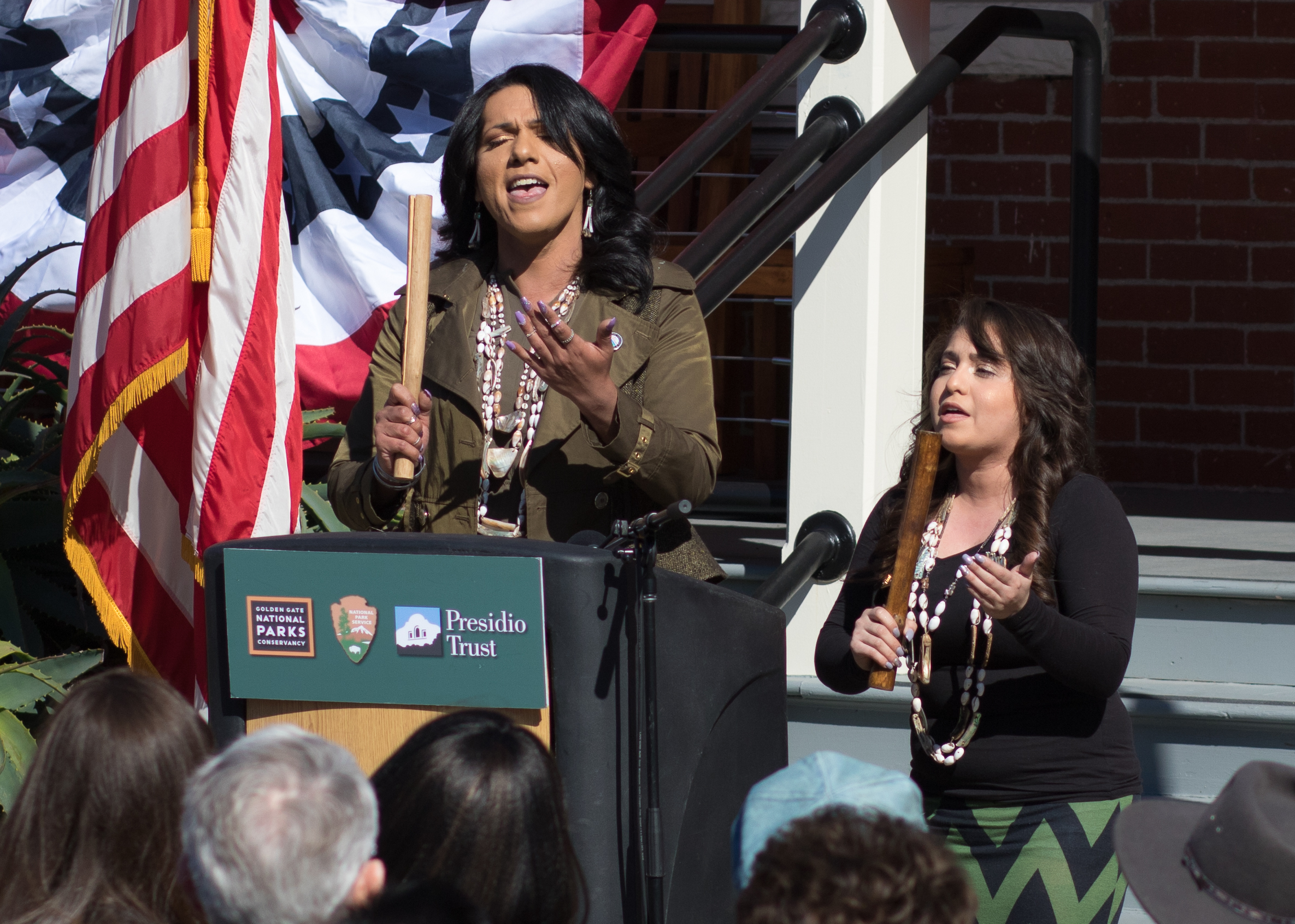 Carla Marie Muñoz and Desiree Muñoz, members of the Muwekma Ohlone tribe, performing at the ribbon-cutting ceremony of the new Presidio Visitor Center on February 23rd, 2017